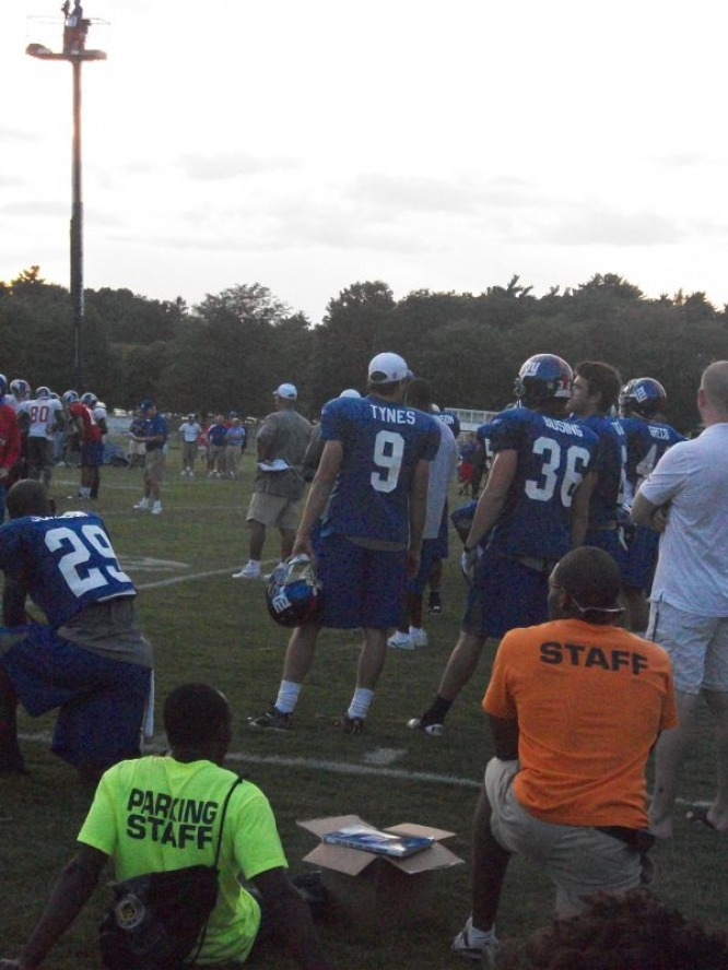 Lawrence Tynes, New York Giants Placekicker.